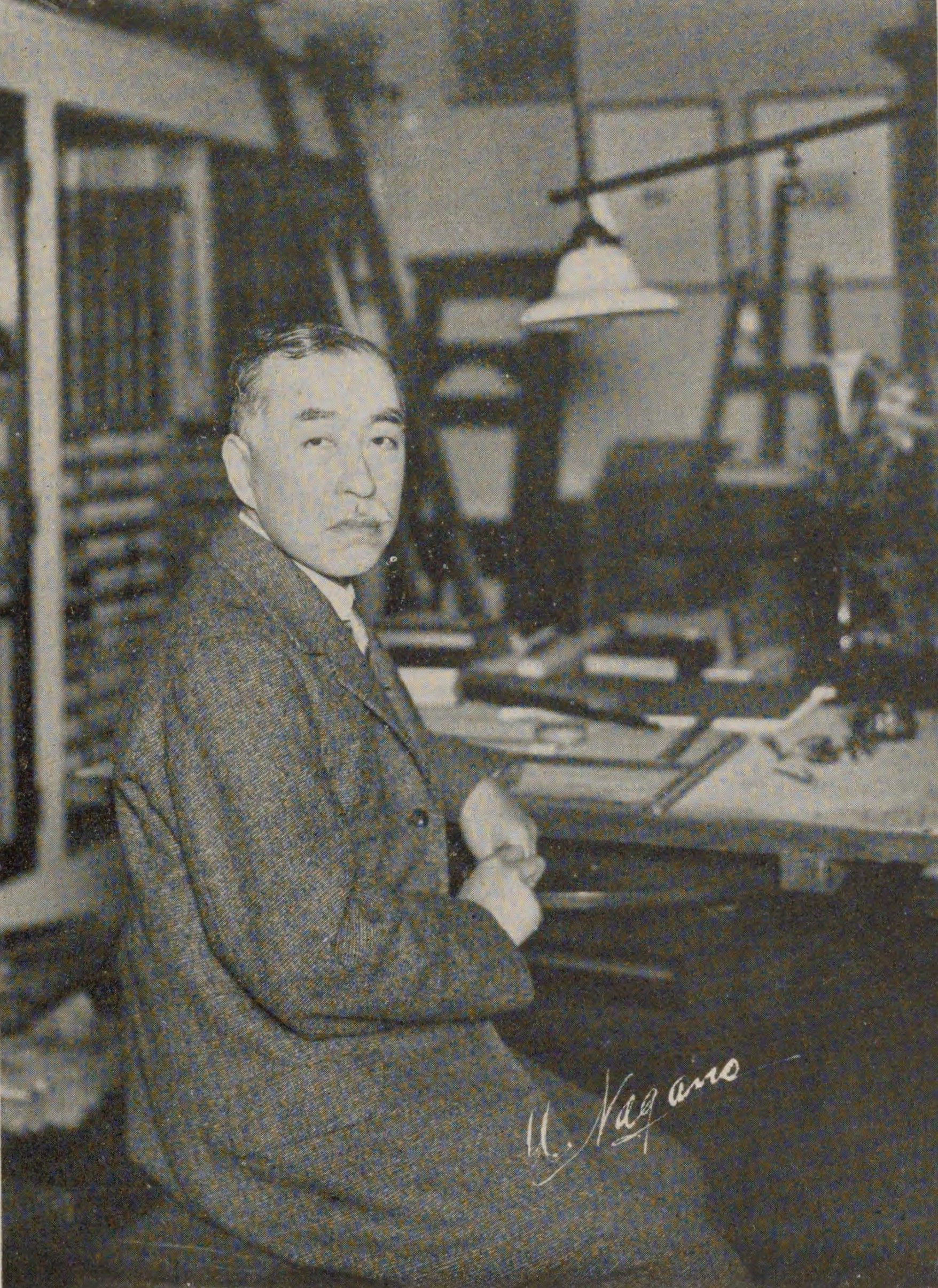 Nagano Uheiji around 1928.